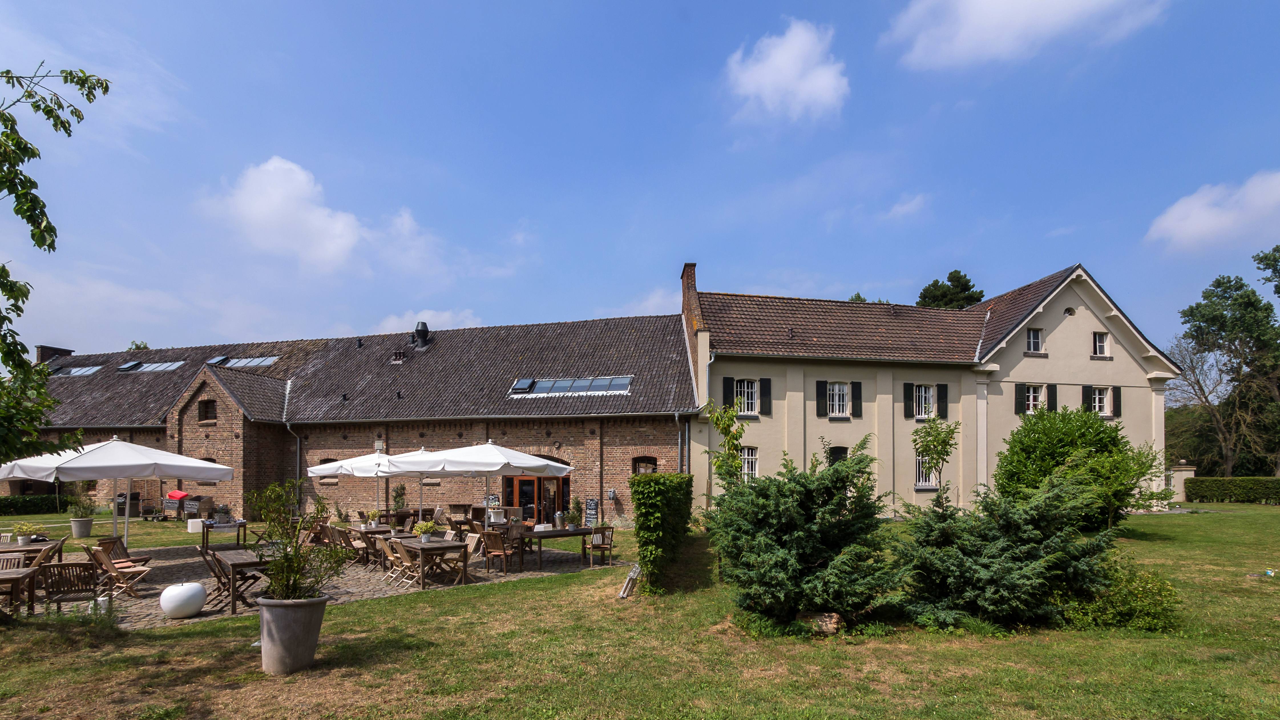 Königshoven - Gut Hohenholz VIThis is a photograph of an architectural monument., no. 57